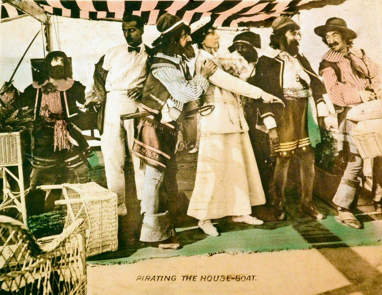 Photo from the 1916 film Prudence the Pirate. I believe this is a lobby card. The scene shows Prudence's pirate crew boarding her aunt and uncle's houseboat and kidnapping her aunt (played by Flora Finch) and the wealthy suitor her aunt chose for her, John Astorbilt. (Played by Barnett Parker).